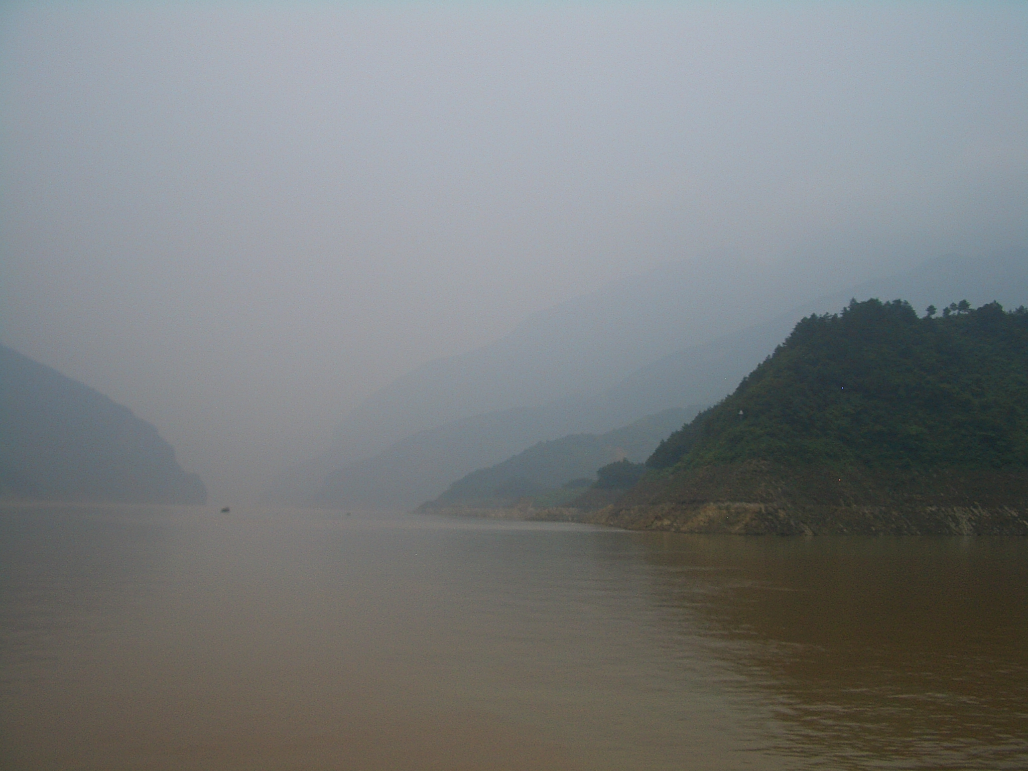 In the Xiling Gorge area of the Yangtze (Zigui County, Hubei, upstream from Maoping